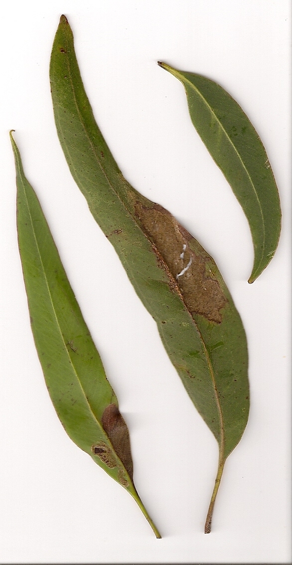 Blackbutt leaves, Chatswood West, Australia